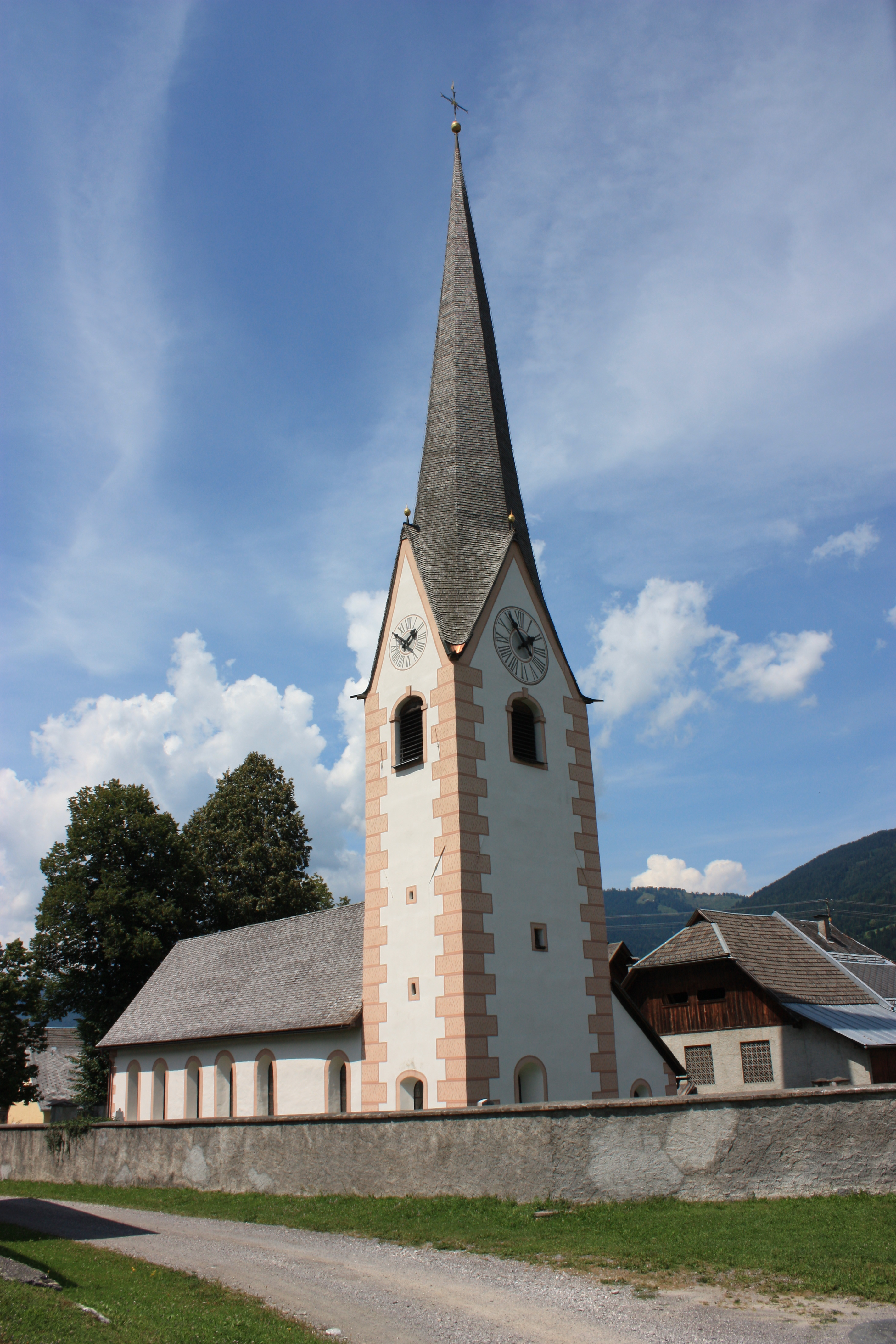 Parish church Saint George Locality: Tröpolach Community:Hermagor